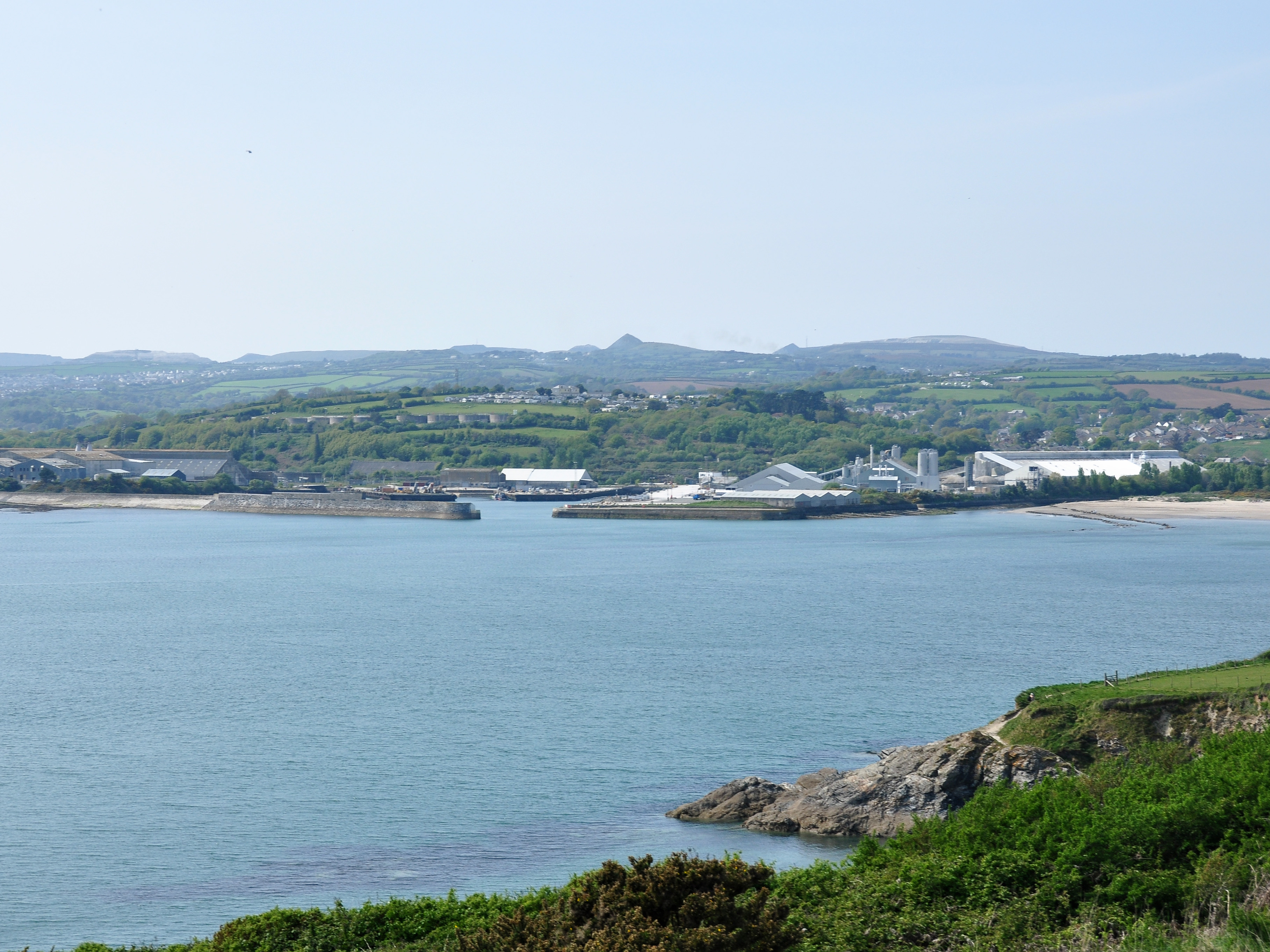 Par Docks in Cornwall, seen from near Polkerris. The spoil heaps from the clayworks around St Austell are visible in the background.